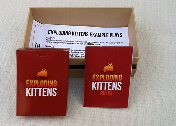 On 11 April 2015, the Elite Team Kitten play tested the new game called Exploding Kittens